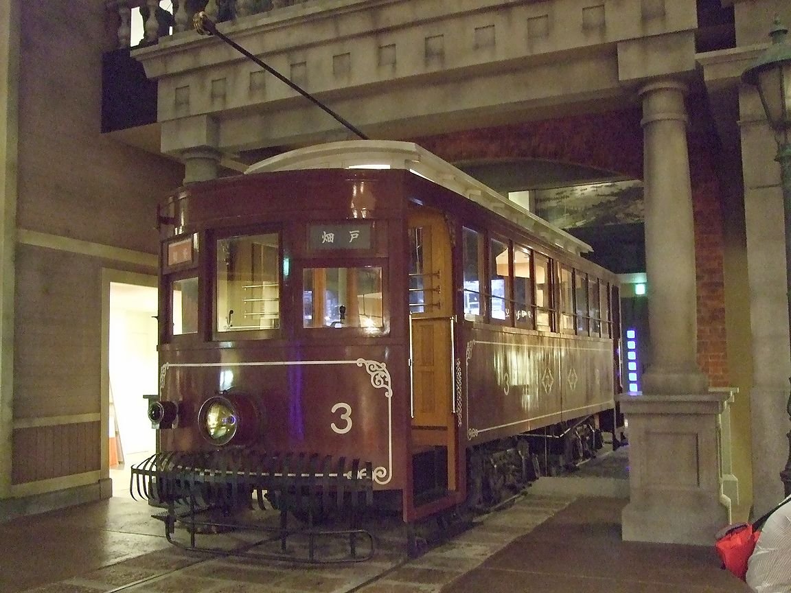 Kyushu Electric Tramway(→Nishi Nippon Railroad) tram Type1 No.3 (replica)